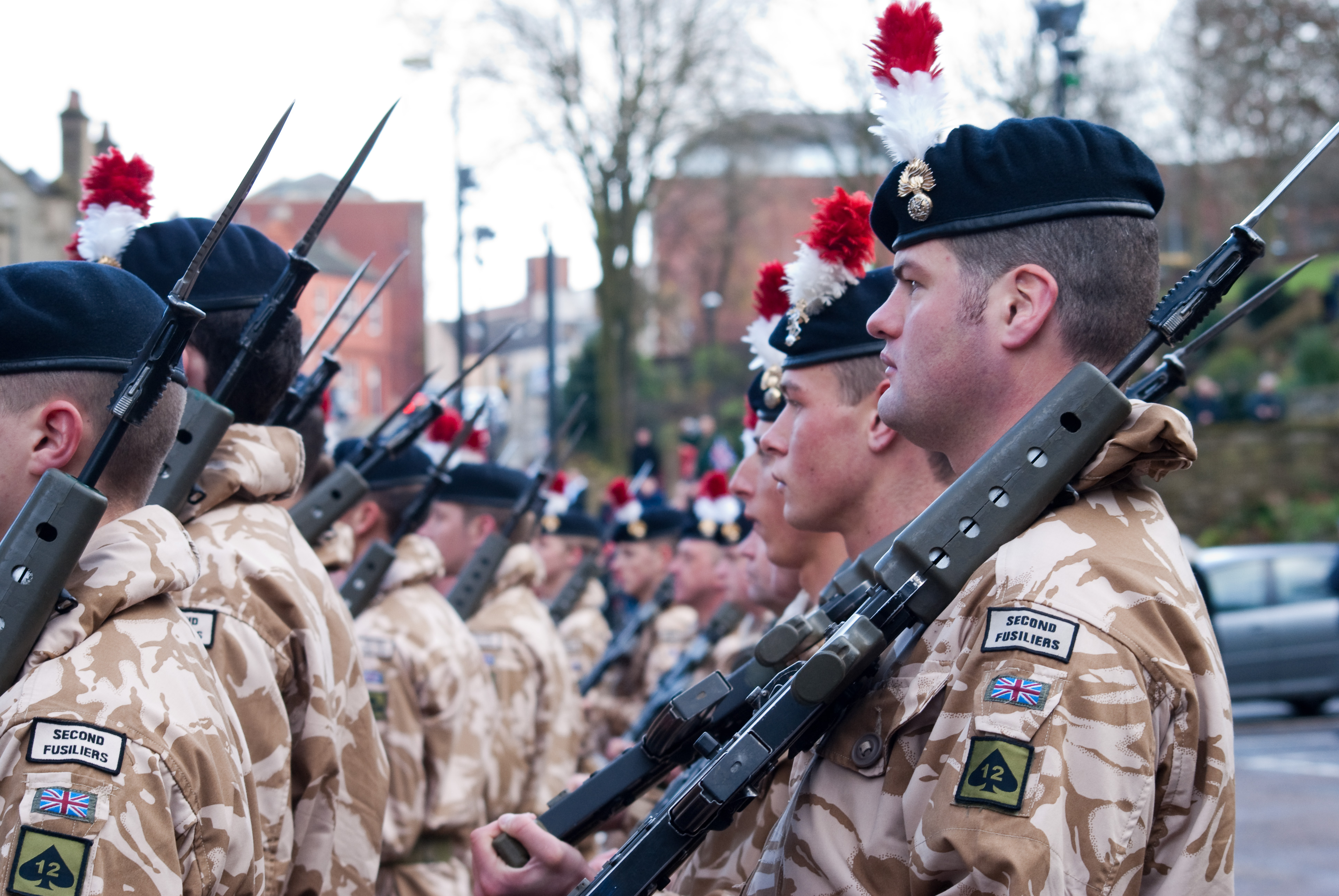 The Royal Regiment of Fusiliers in Rochdale, Greater Manchester, England.